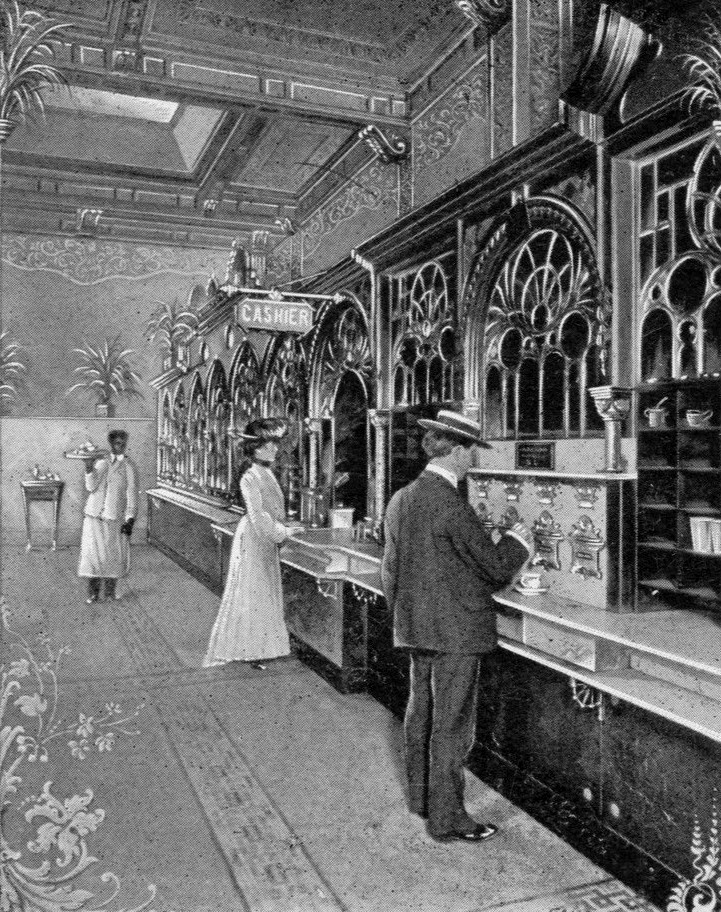 Postcard picture of an automat in Philadelphia, Pennsylvania Caption on front of postcard, left side: "Largest Automatic Restaurant in the World, 818-820 Chestnut St., Philada., Pa." Caption on front of postcard, right side: "THE AUTOMAT — DRAWING COFFEE"